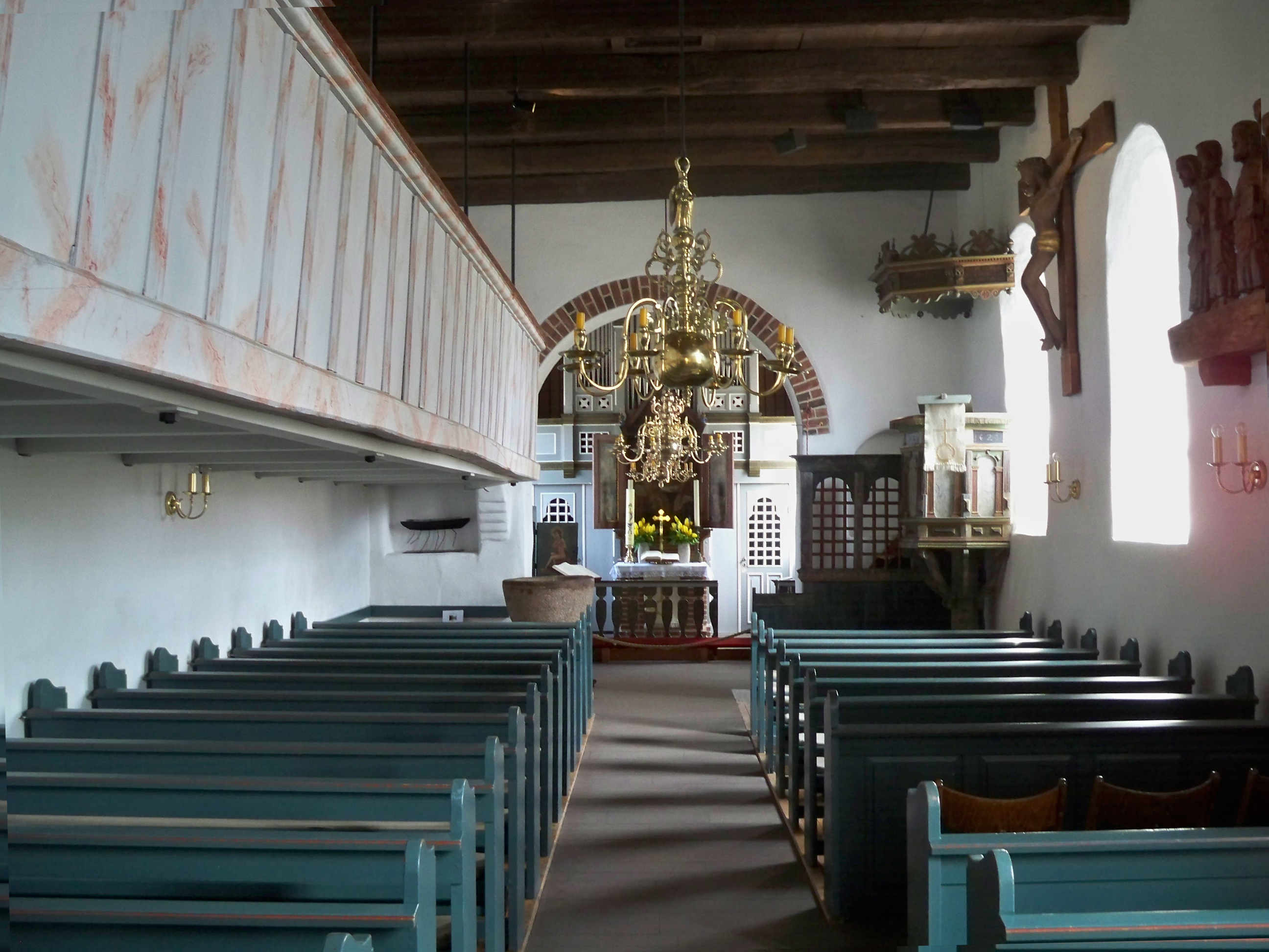 Interior of St. Clemens church, Nebel, Amrum, Germany, view towards altar